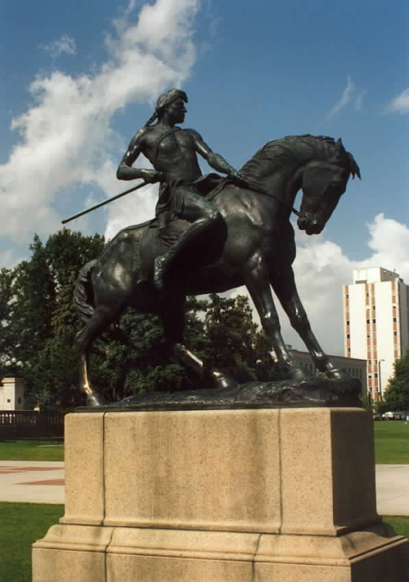 photo by Einar Einarsson Kvaran Alexander Phimister Proctor now hooked to Equestrian sculpture